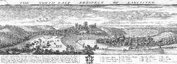 A drawing of Lancaster "before the large scale redevelopment of the 18th Century"[1]